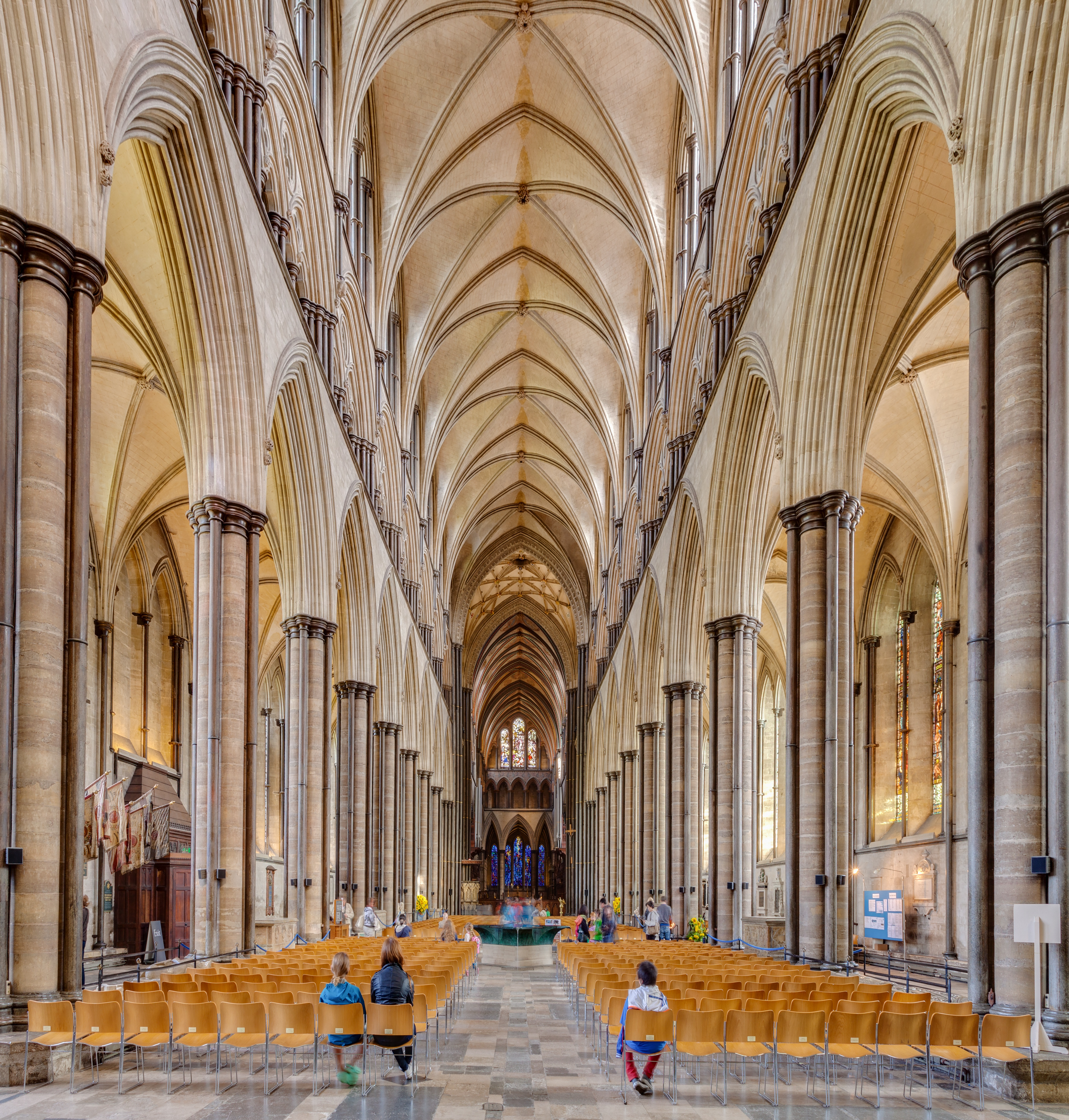 Salisbury Cathedral, Salisbury, England